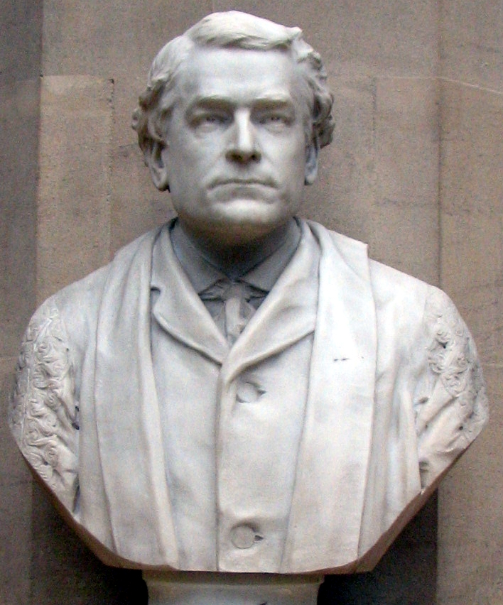 George Rolleston, British evolutionary biologist. Statue on permanent display in the Oxford University Museum of Natural History.